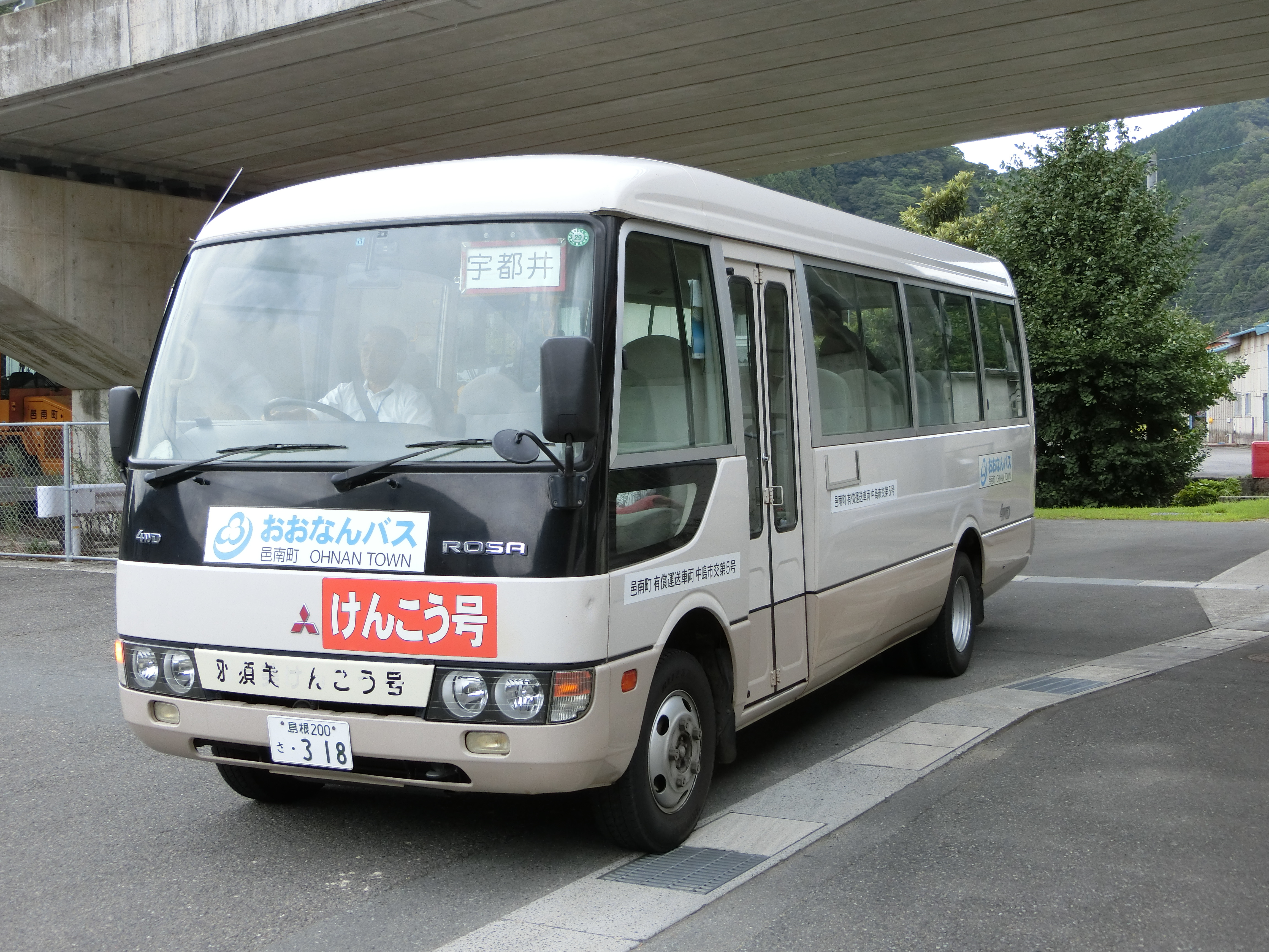 Fuso Rosa used in Udui Line of Onan Town Bus Kenko-go. Taken at Kuchiba Station.